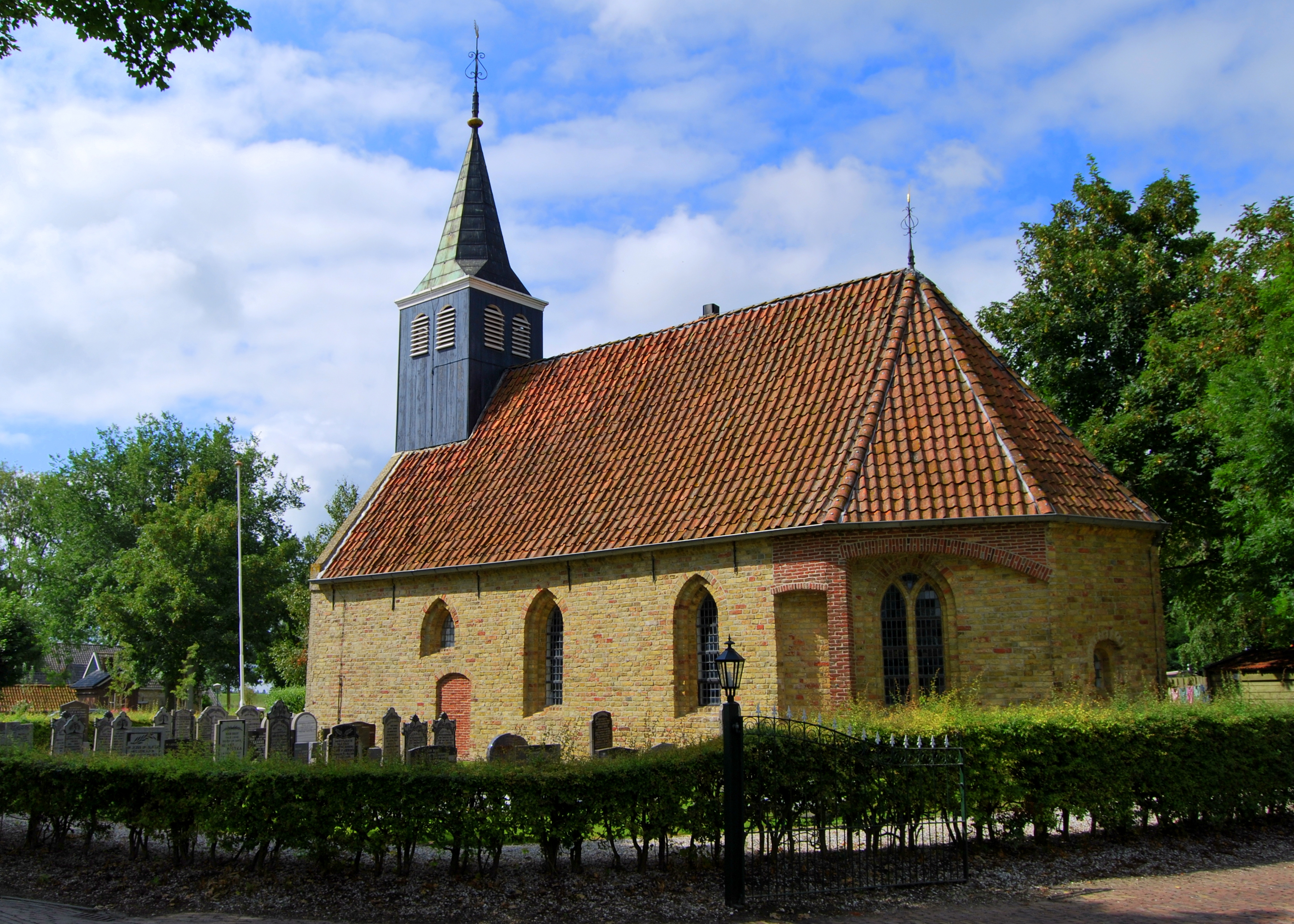 Piaam, protestant church